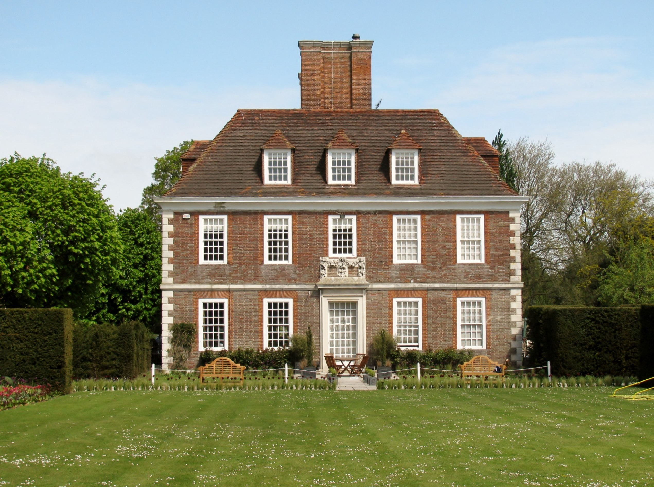 The Salutation from the south west